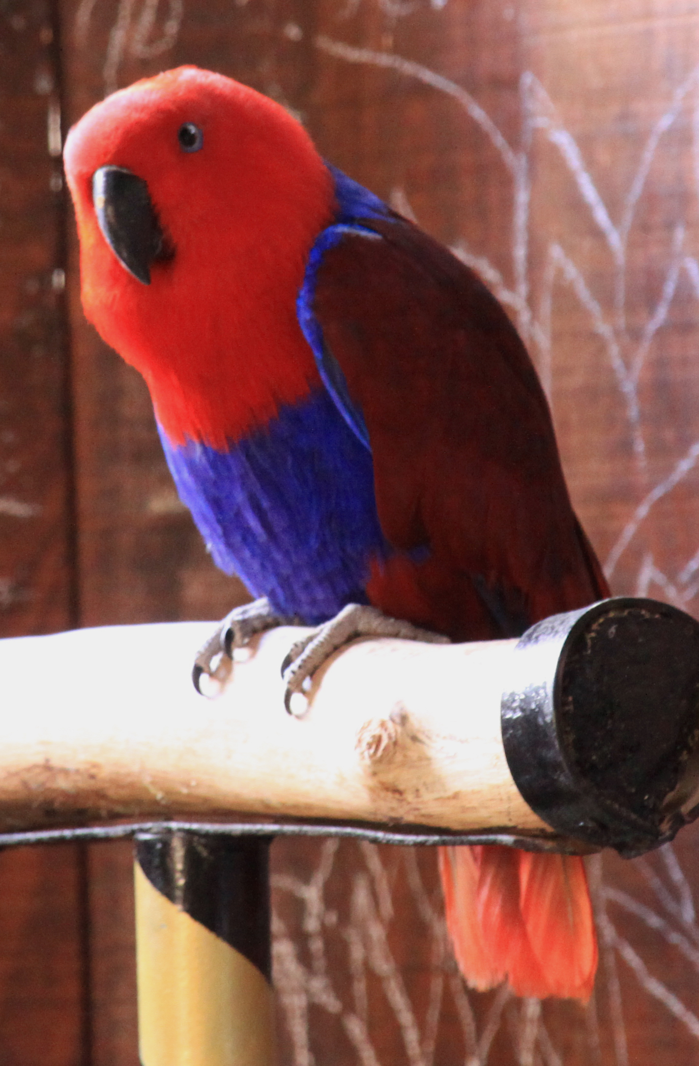 A female Eclectus Parrot at Jungle Island, Miami, USA.